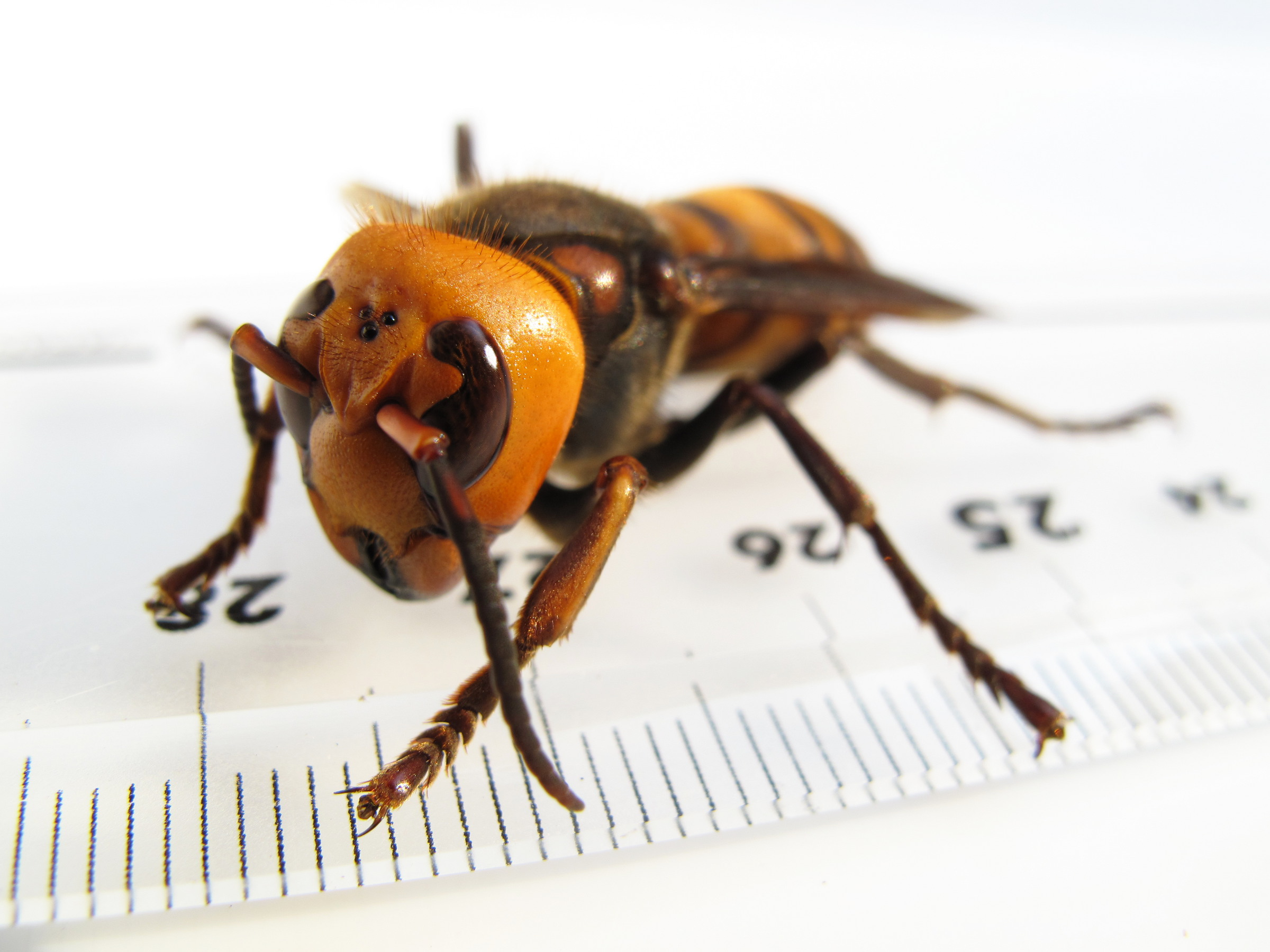 female Vespa mandarinia japonica